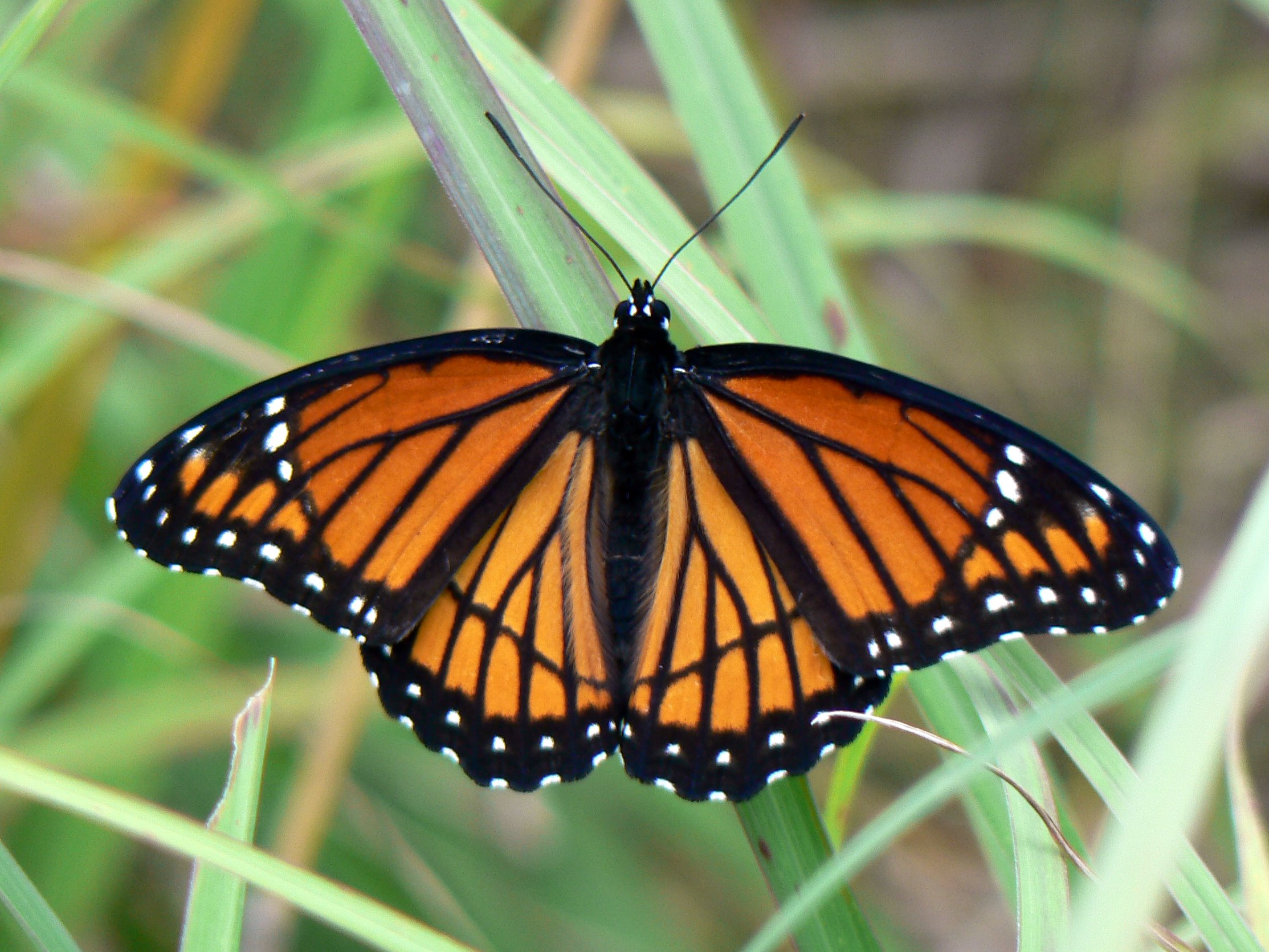 Limenitis archippusThere were maybe a dozen of these fluttering around the grasses.